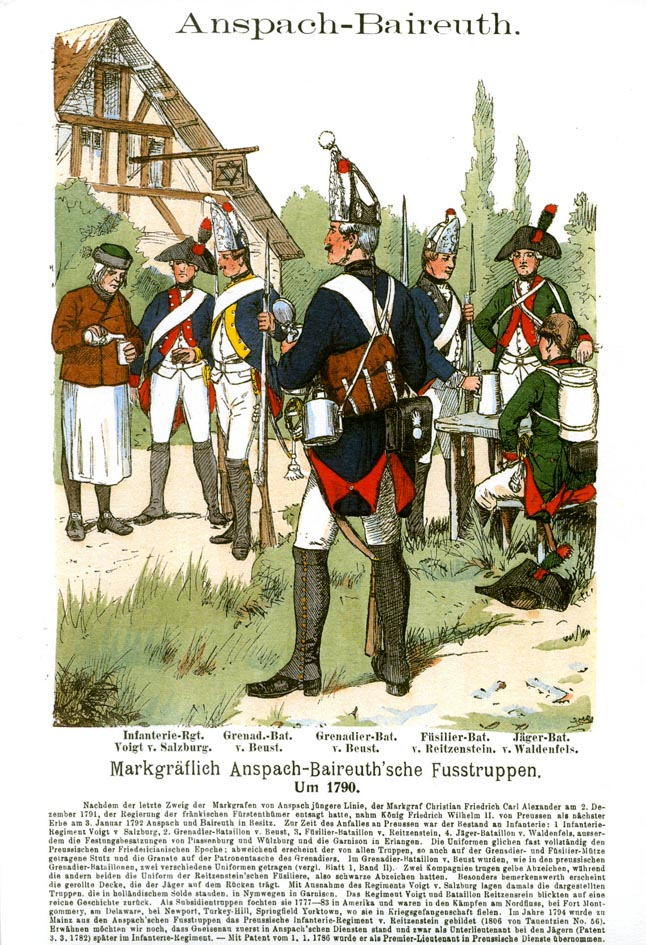 Anspach-Bayreuth: Markgräflich Anspach-Bayreuth'sche Fußtruppen. Um 1790